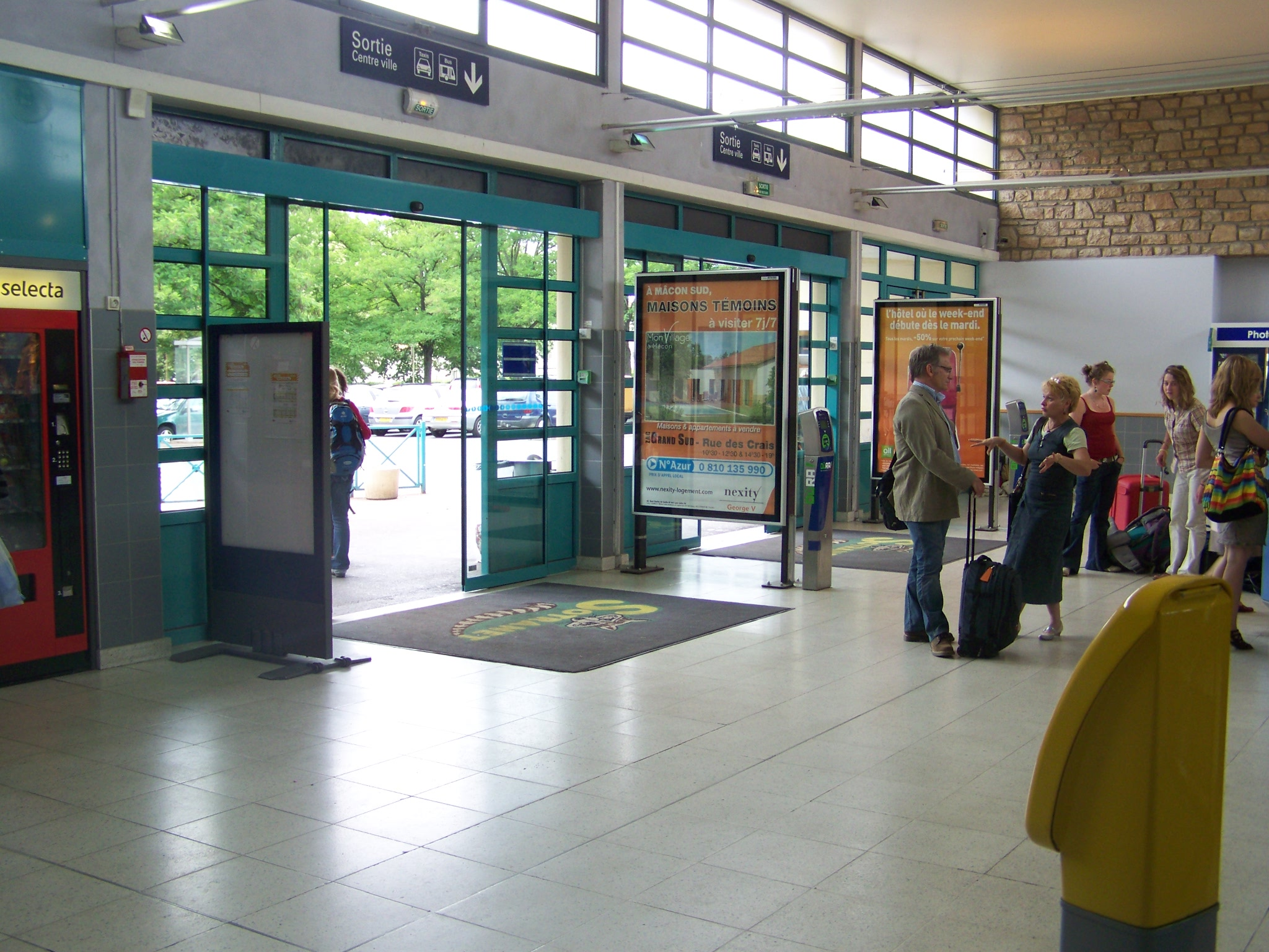 Interior view of city of Mâcon railway station, in Saône-et-Loire, France.